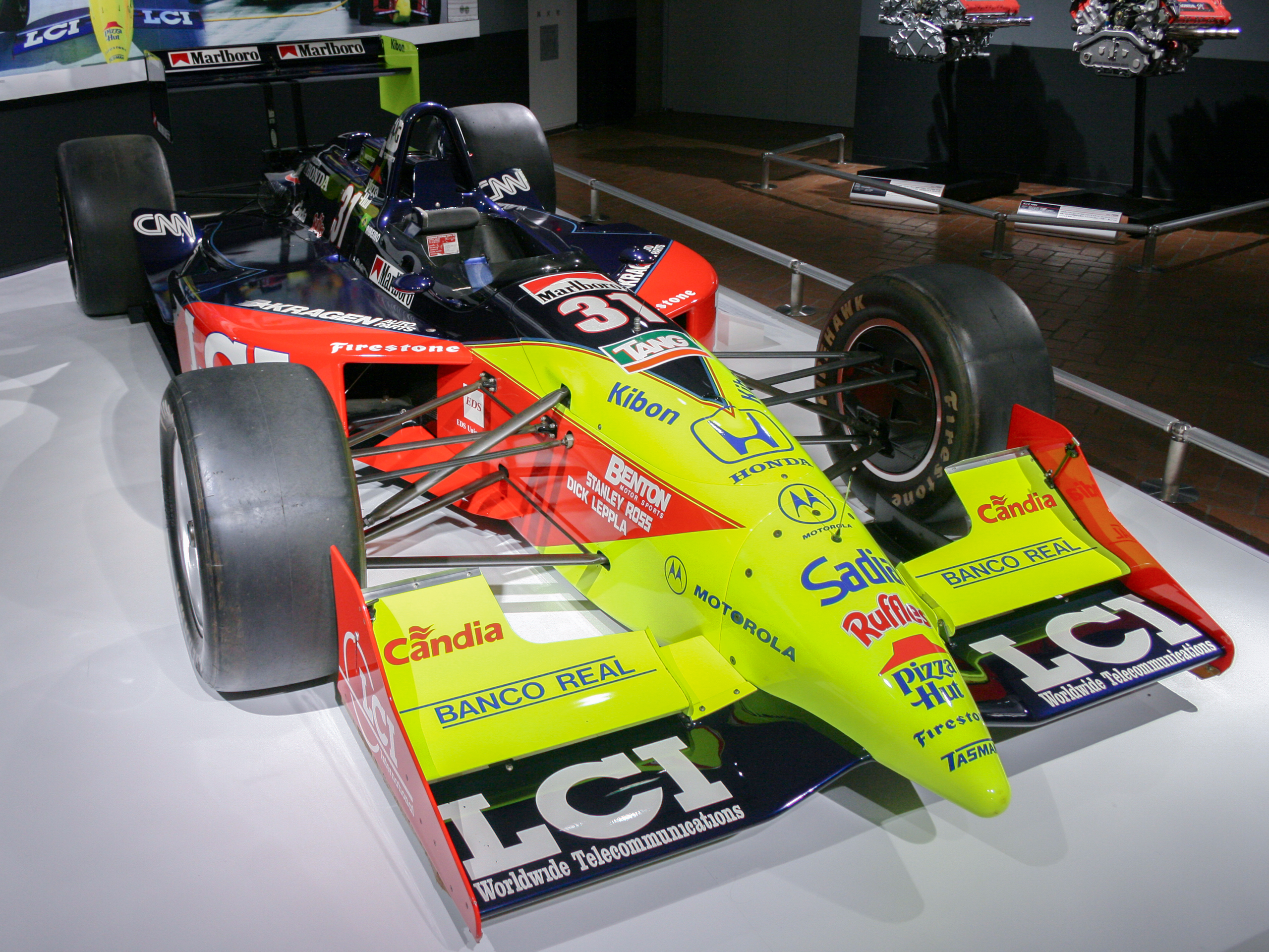 1995 Reynard 95I of André Ribeiro; winning car of the 1995 New England 200 at New Hampshire Motor Speedway. It was the first victory for Honda in the IndyCar series.